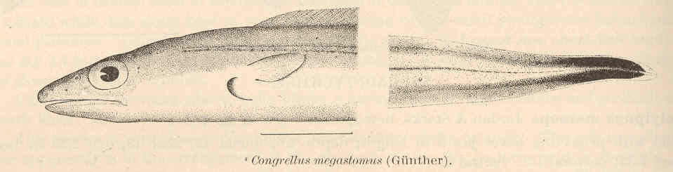 Congrellus megastomus (Gunther) Subject: Congridae, Eels, Congrellus Tag: Fish